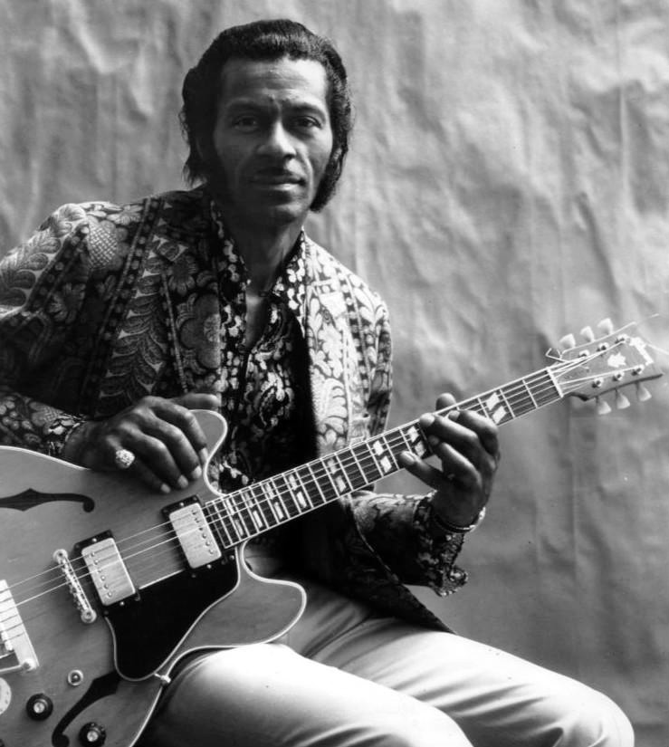 Publicity photo of Chuck Berry